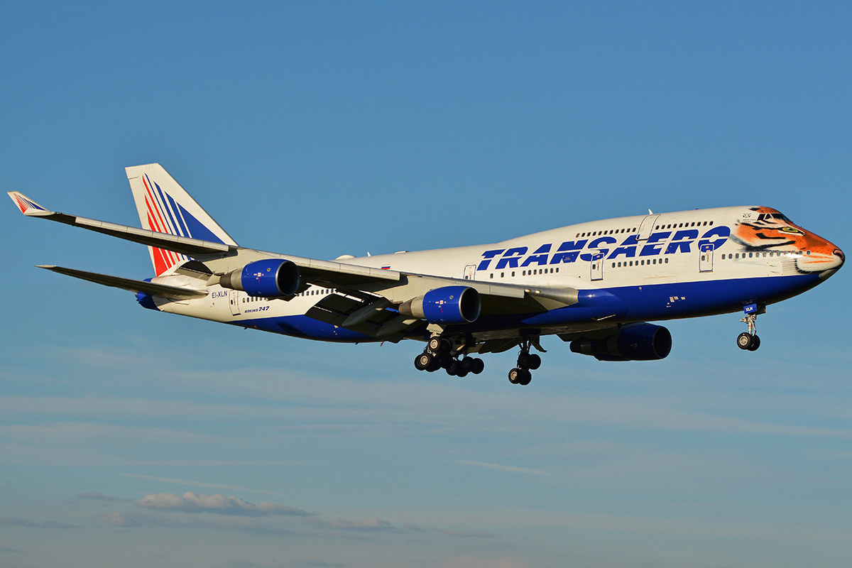 Transaero Airlines Boeing 747-400 "Amur Tiger" on finals at VKO